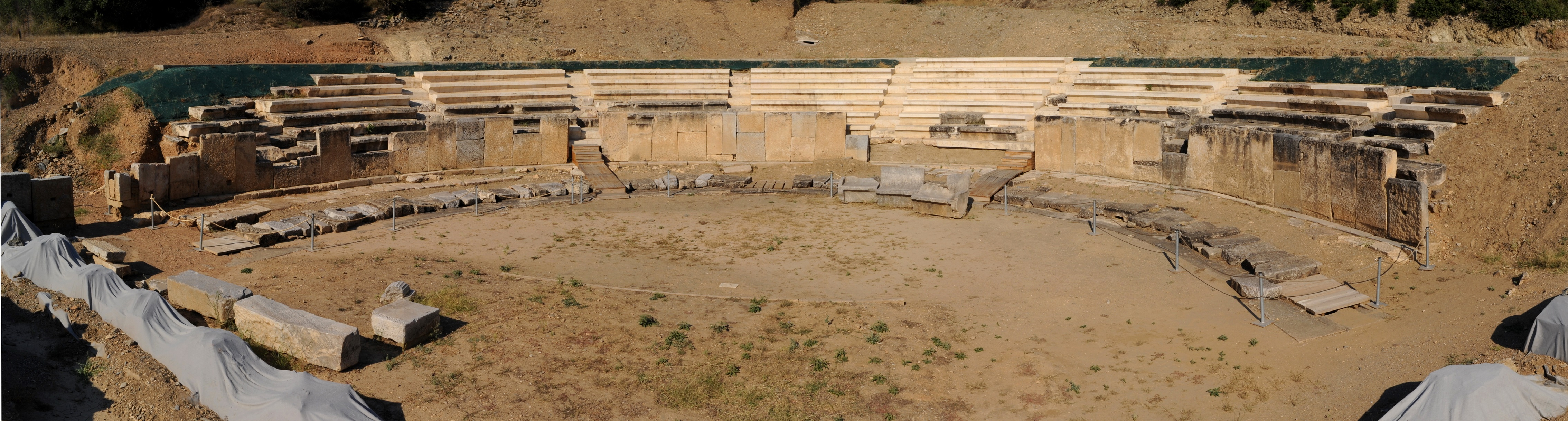 Panoramic image of ancient theater of Maronia, Rhodope, Thrace, Greece.